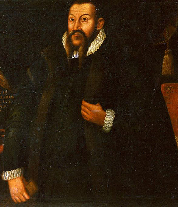 Gothard Kettler